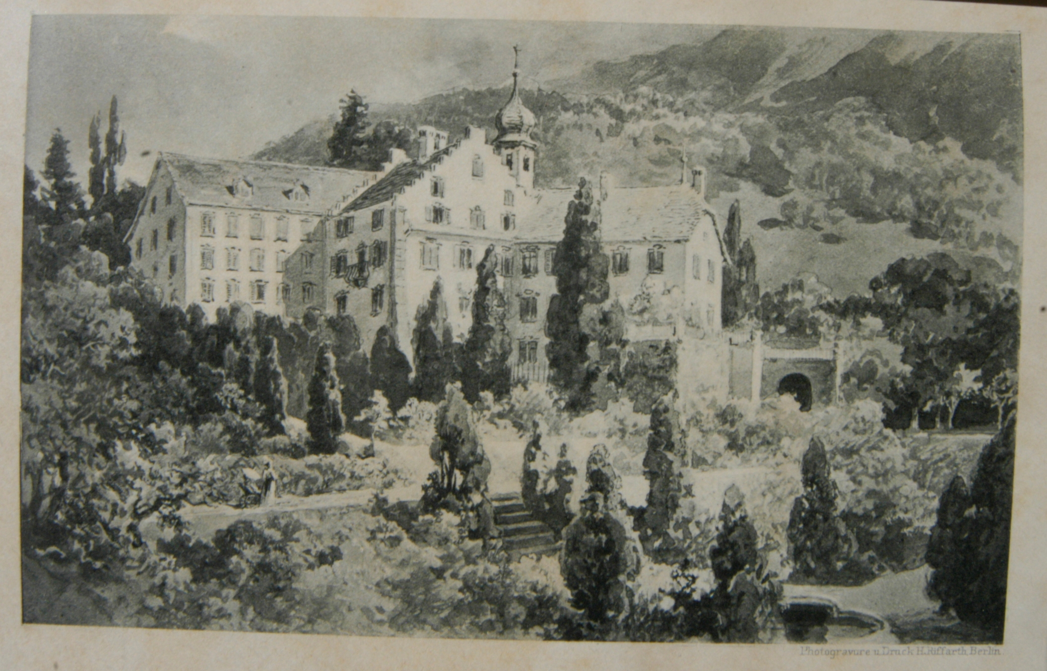 Photo (by me, R. de Salis, Rodolph (talk) 21:47, 5 July 2014 (UTC)) of a print of Bothmar, Malans, engraving from Adolf Frey's book, 1889.